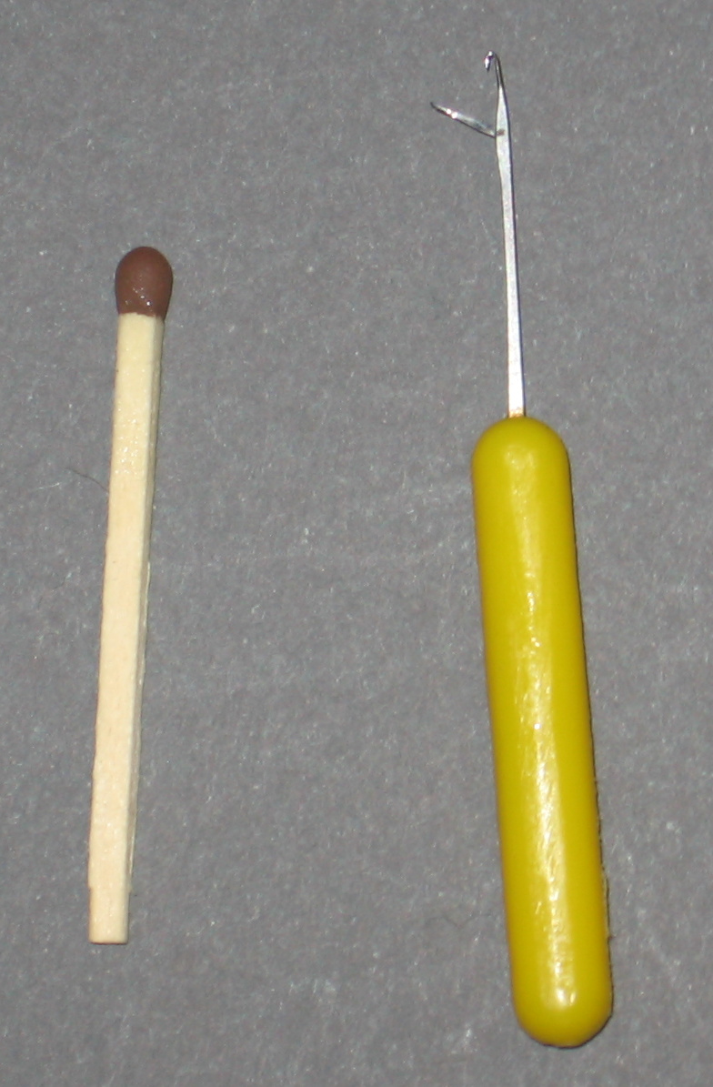 hand-operated needle for stocking repairing